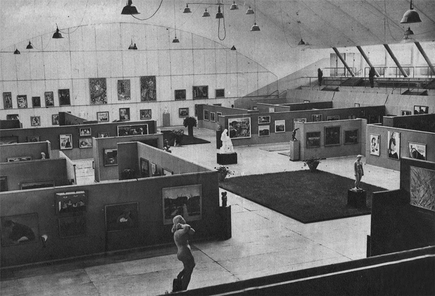 An overview of the exhibition Nordisk konst in Goteborg, Sweden, 1943. Curated by Axel Romdahl. In the front you see the Danish part, middle left the Finish, middle right the Icelandic, and in the back the Swedish part of the exhibition.